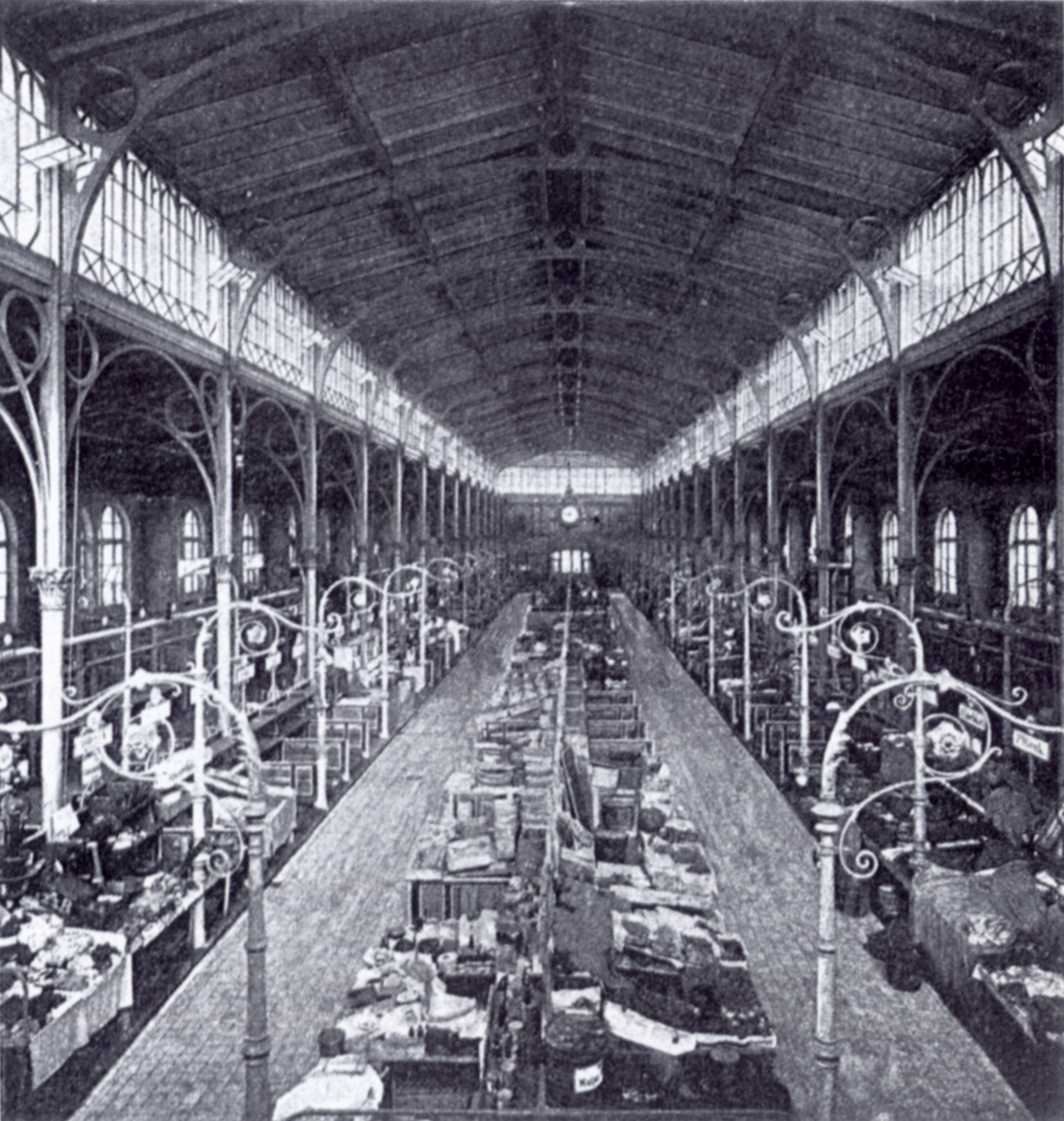 Berlin - interior view market hall V around 1890